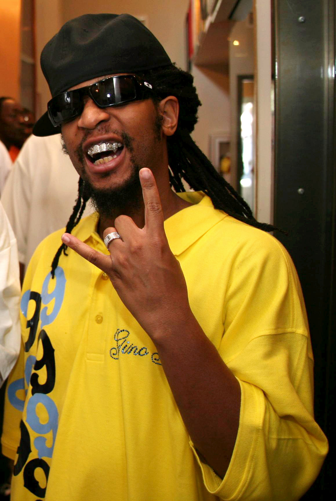 Lil Jon, cropped from original image.